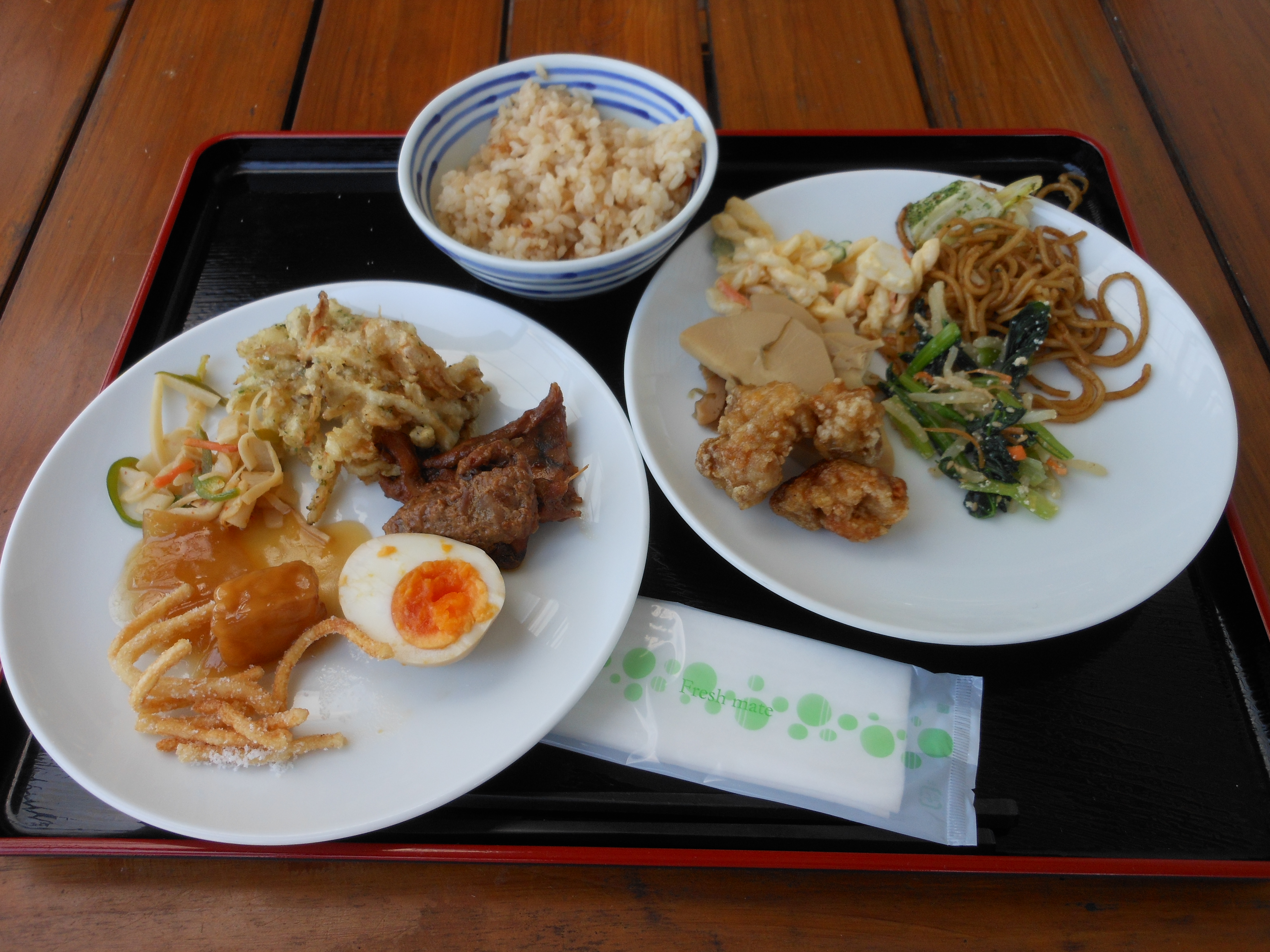 These dishes are made by the restaurant "Yumekodo Owase" in Owase, Mie, Japan.